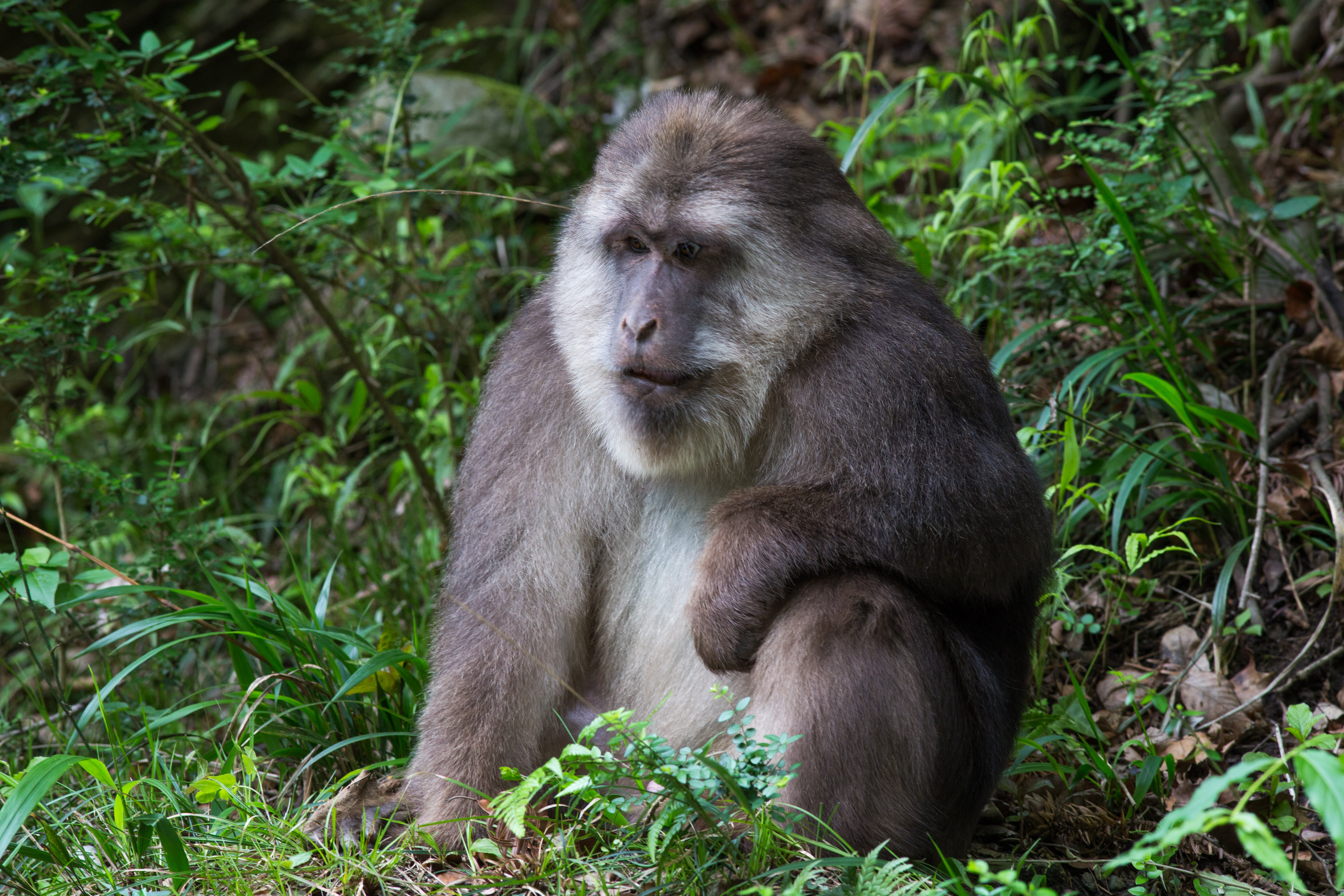 Male Tibetan Macaque, Tangjiahe Nature Reserve, Sichuan